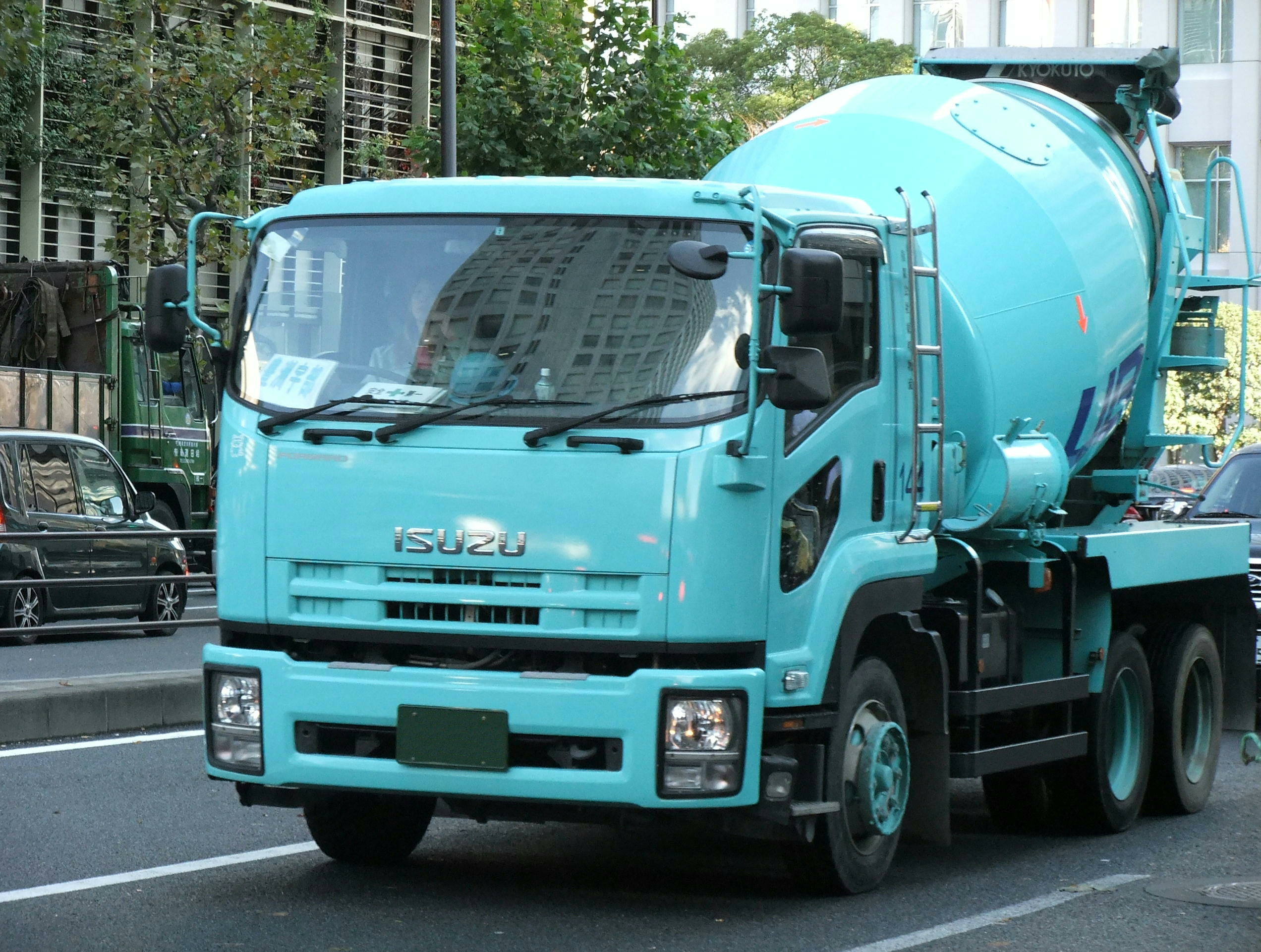 ISUZU, F-Series / FORWARD, Cement mixer truck （There are a country and a region sold as F-series excluding a Japanese market, too.）